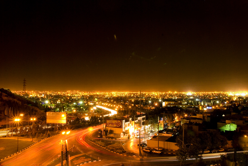 I was going to upload and dedicate this shot to all of my friends in Shiraz that suddenly I saw something strange on my photo! it was like a face... Hell yea it is! He seems like a ghost and I have no idea what is his face doing in this photo!!! And I must mention that THIS IS MY ORIGINAL SHOT straight from camera and haven't add anythin to it! You tell me whats that thing in position of right-bottom of my photo. I'm totally shocked! I've also its Nikon Raw version as a proof that it's not a trick or photo manipulation. This photo has been taken from top of the place named "khaju kermani" and there is not any window or glass to make a reflection in photo.